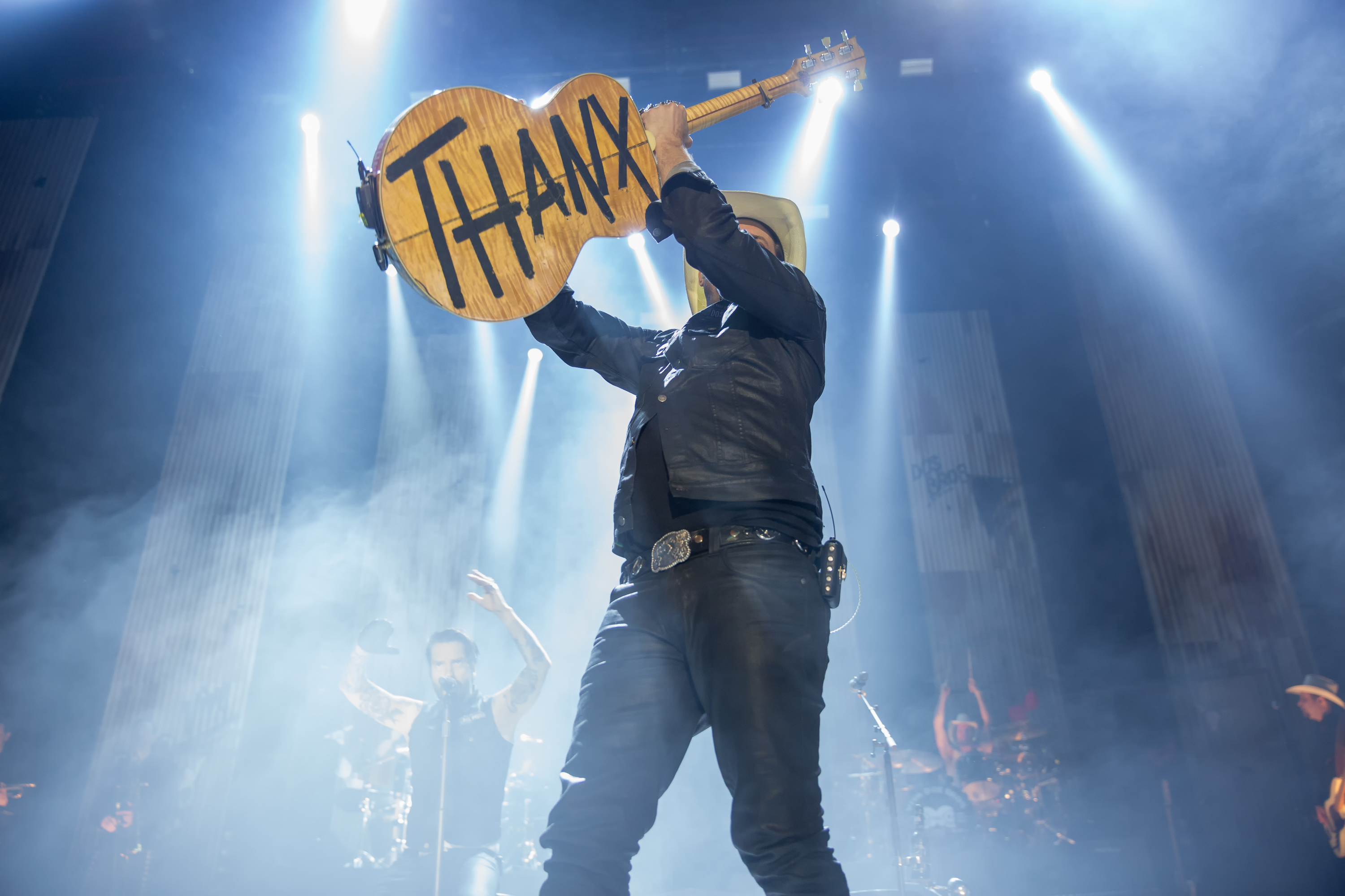 The BossHoss at Arena Show in Koenig Pilsener Arena, Oberhausen, Germany